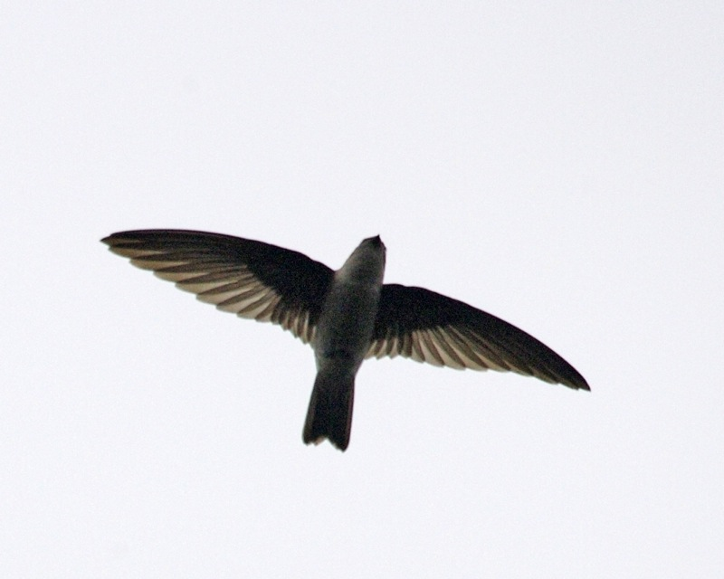 Edible nest swiftlet Aerodramus fuciphagus They are difficult to identify, the only visible feature here is that the tail is notched. The rump is a paler grey but I was unable to get a good dorsal shot. This was found near a 4 storey building with no windows, only air inlets and a large entrance on the top floor. It was a purpose built aviary to attract these swiflets to nest, giving the owners a regular supply of edible birds nests - this practice is termed ranching . GAHP.pdf The nests are harvested (in a sustainable manner?) for birds' nest soup an Eastern delicacy nest soup Location: Balikpapan, East Kalimantan, Indonesia July 29, 2008 690V8897